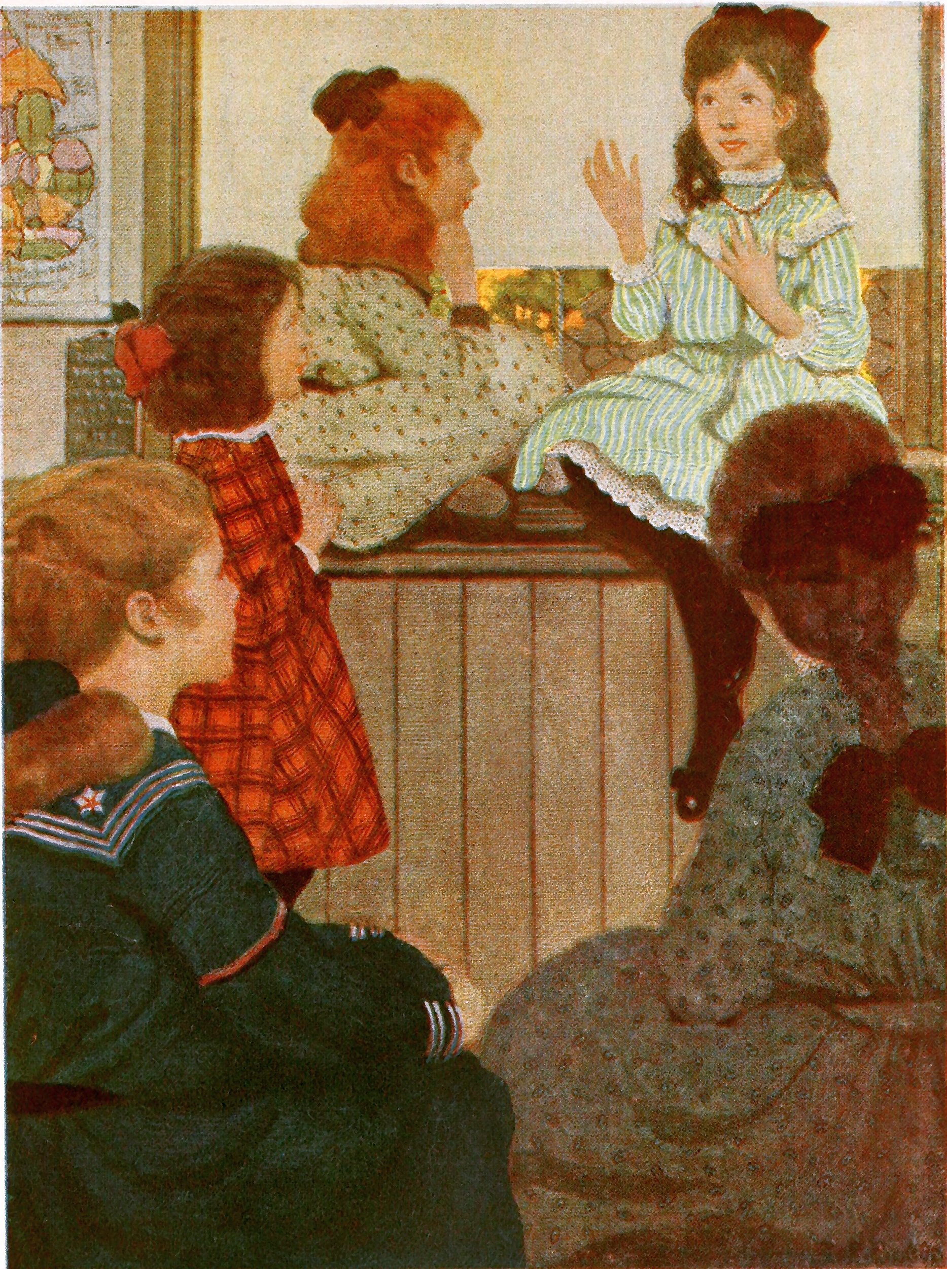 When she sat in the midst of a circle and began to invent wonderful things...